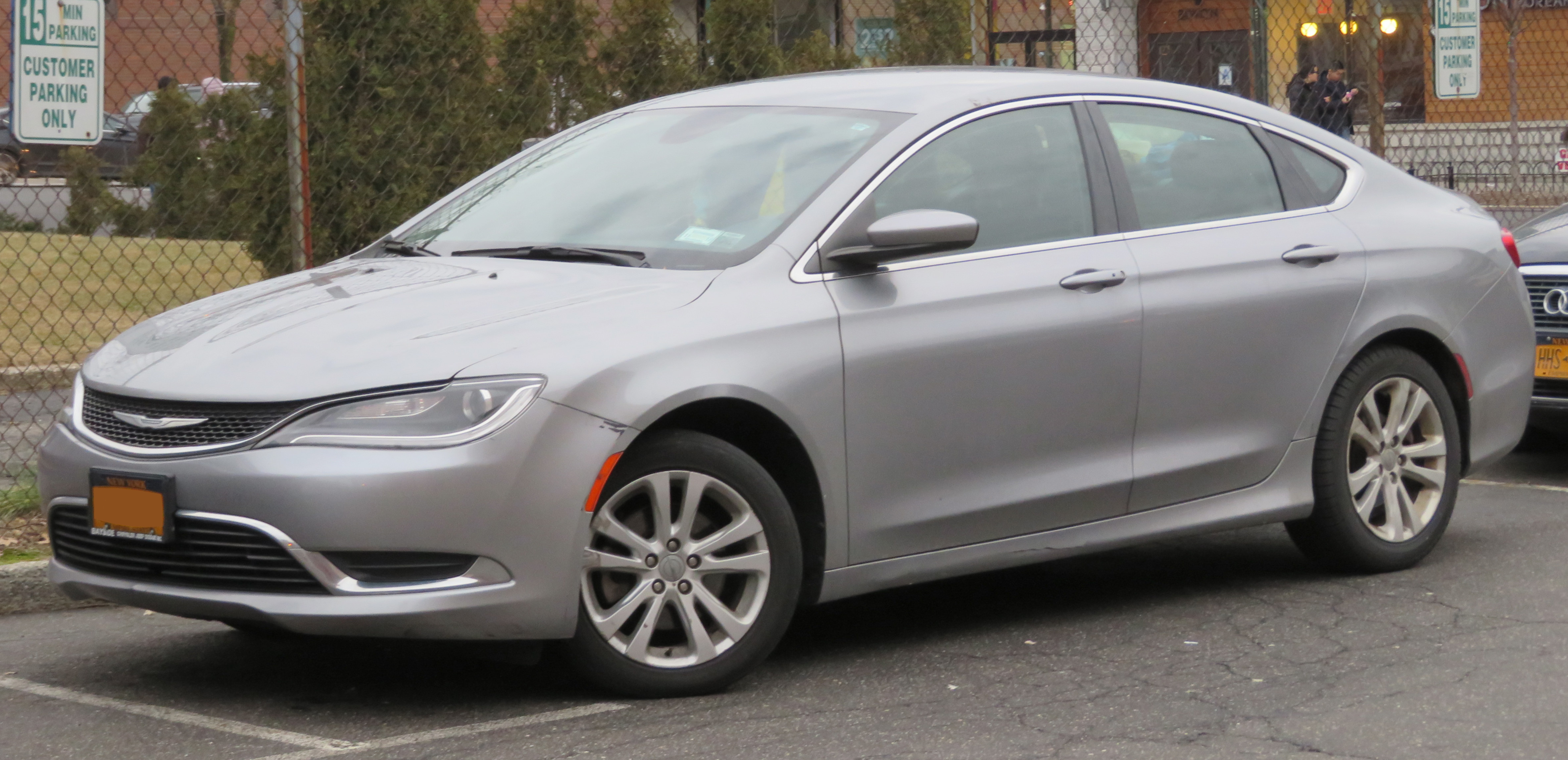 A 2015 Chrysler 200 Limited photographed in Queens, New York, USA